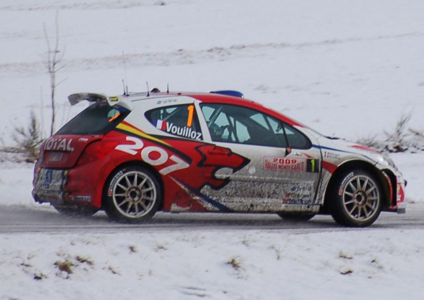 Vouilloz-Klinger in Rallye de Monte-Carlo 2009